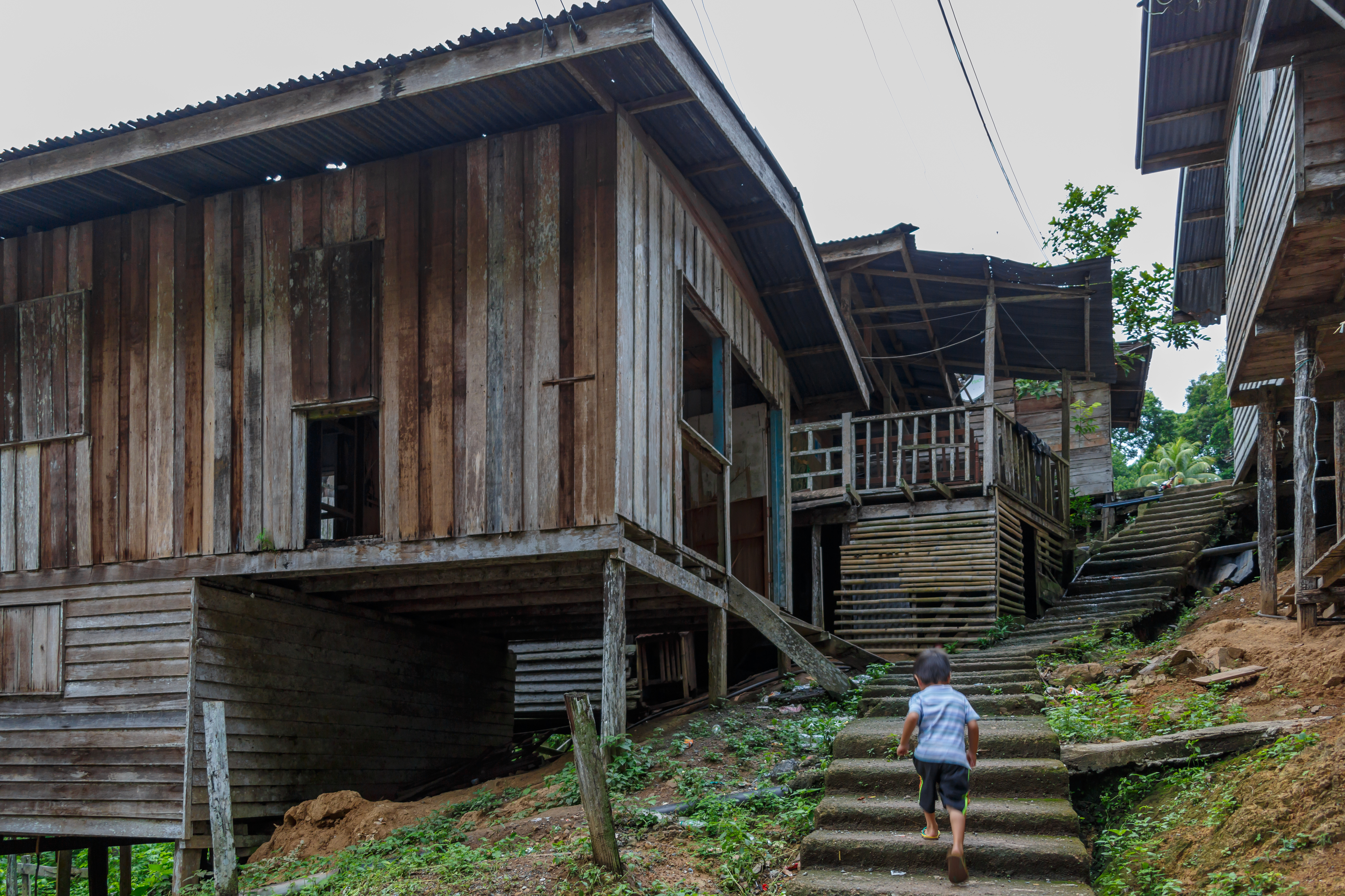 Kg Madai, Sabah: Kg Madai, an Idahan village that is renowned for its cave and the harvesting of swiftlets bird nests)